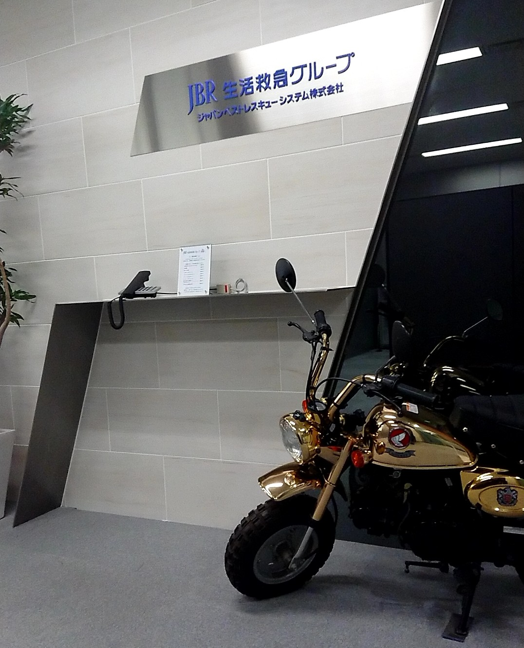 company photo